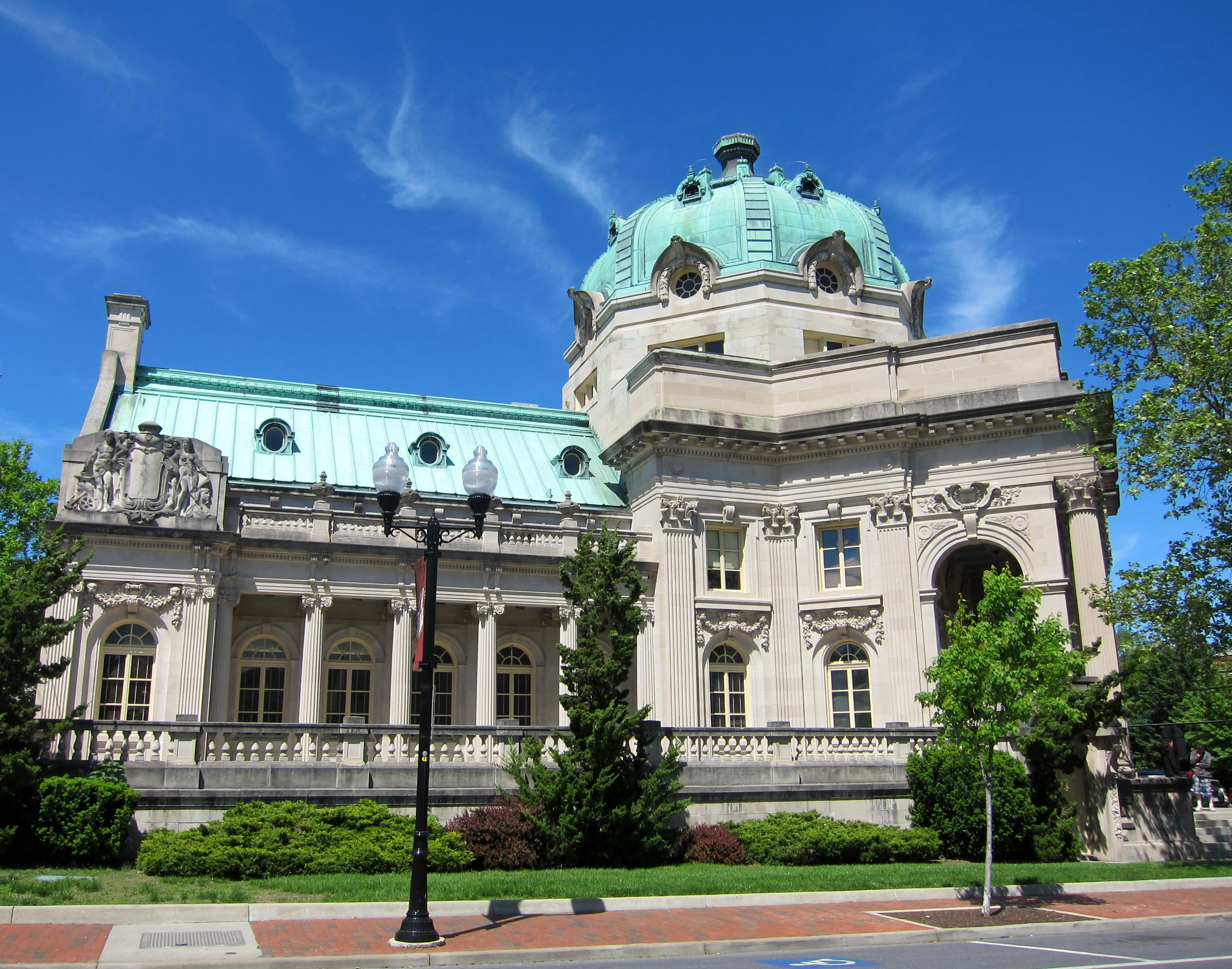 Handley Library in Winchester, Virginia, United States.